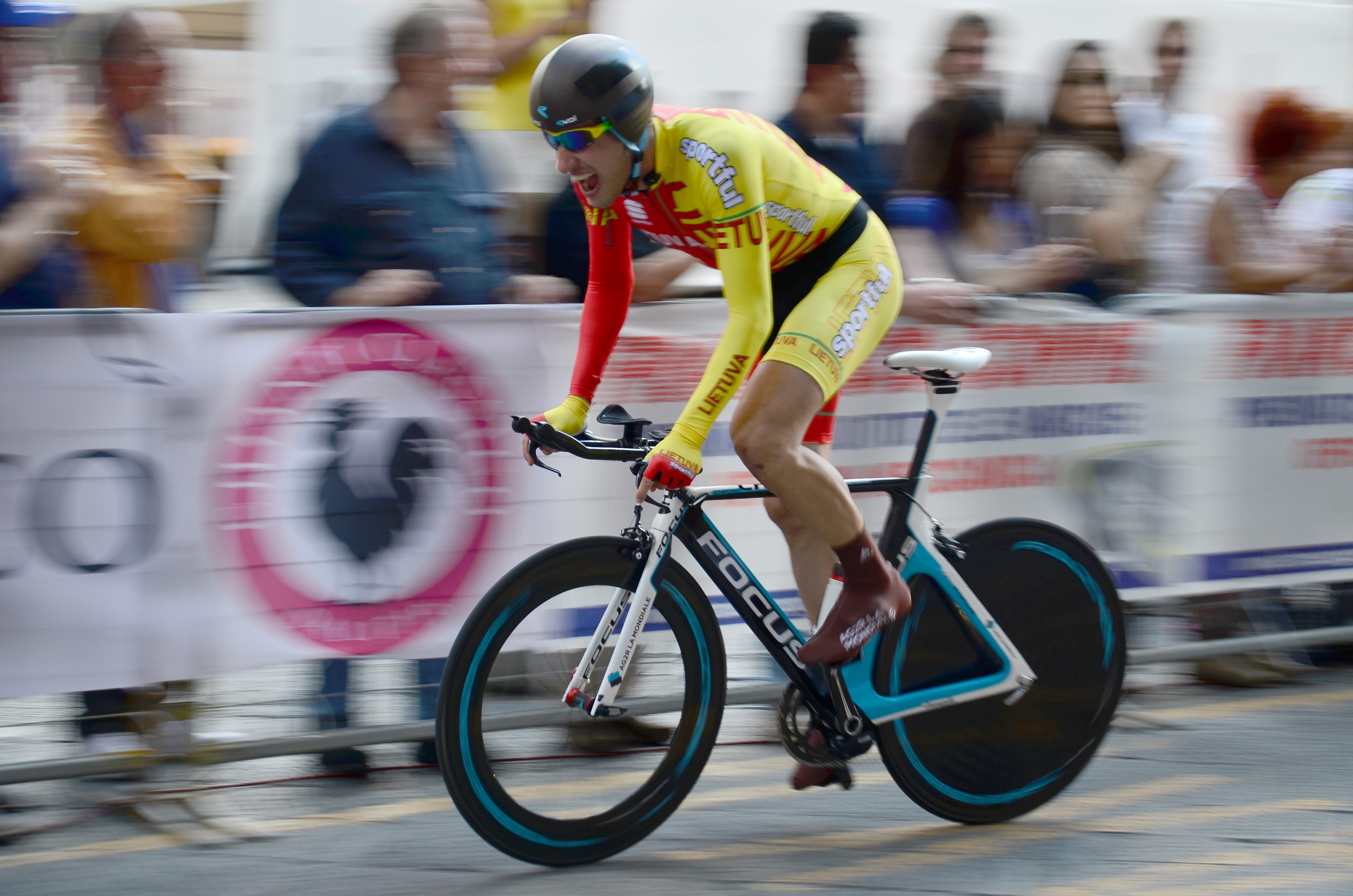 Bagdonas Gediminas Uci Road World Championships Toscana Italy 2013 Florence